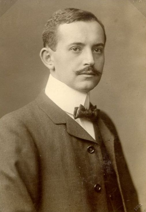 Ernst Weber